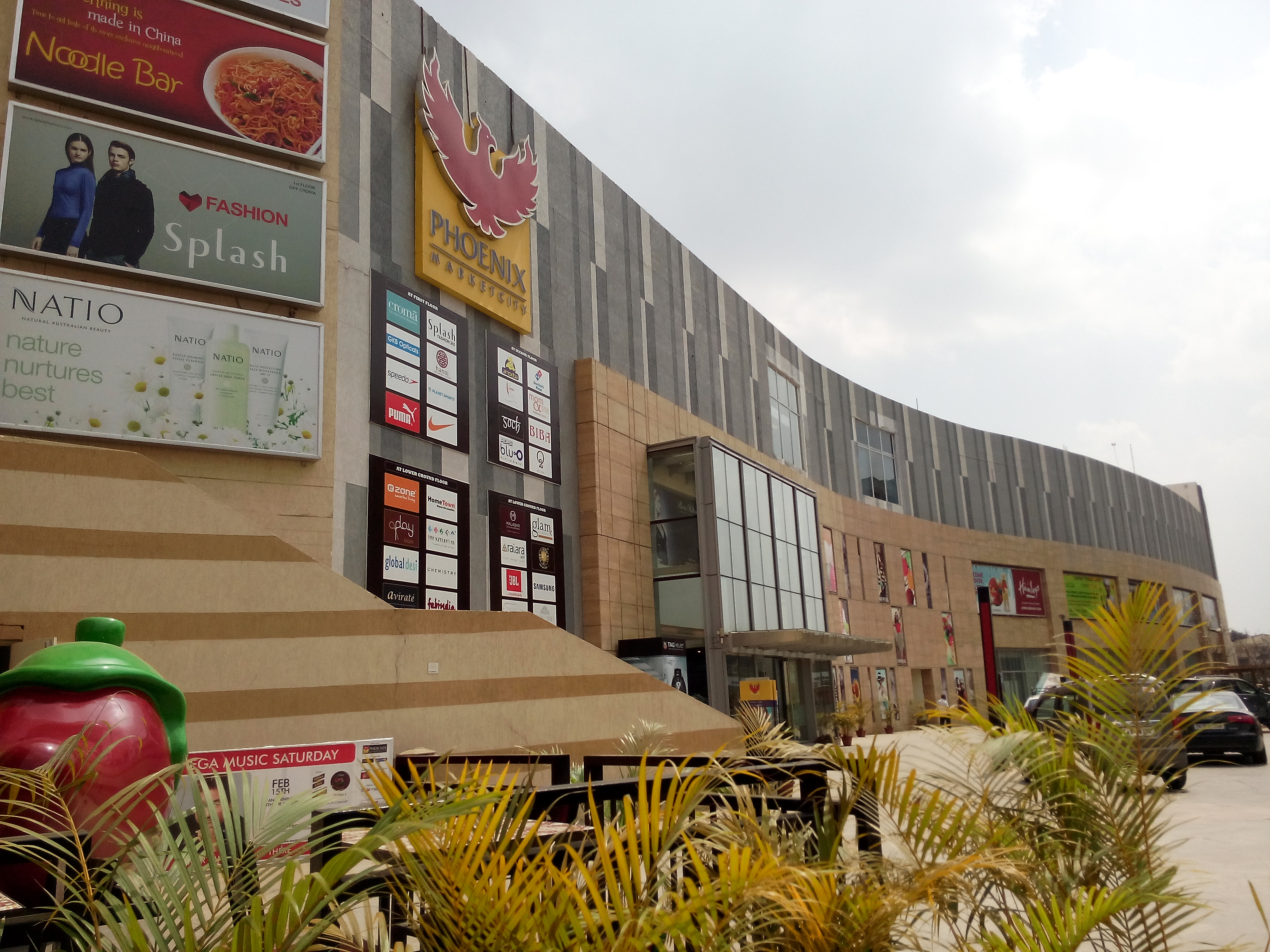 Side view of Phoenix Mall in Bangalore